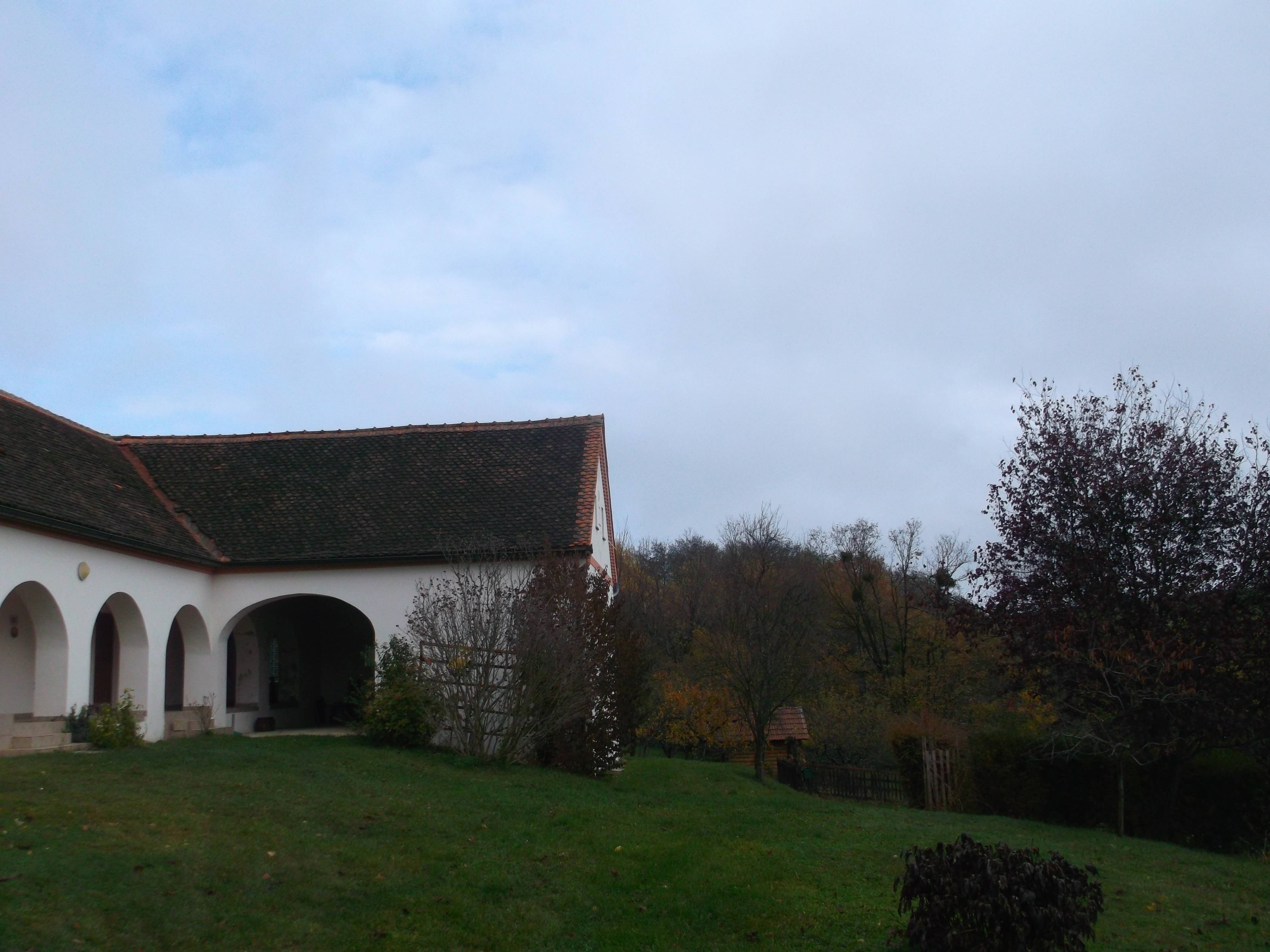 In this parcel was the birthplace of Sándor Mikola (1871-1945) physicist, educator, chauvinistic agitator and Mađaron nationalits. Gornji Petrovci, Prekmurje, Slovenia